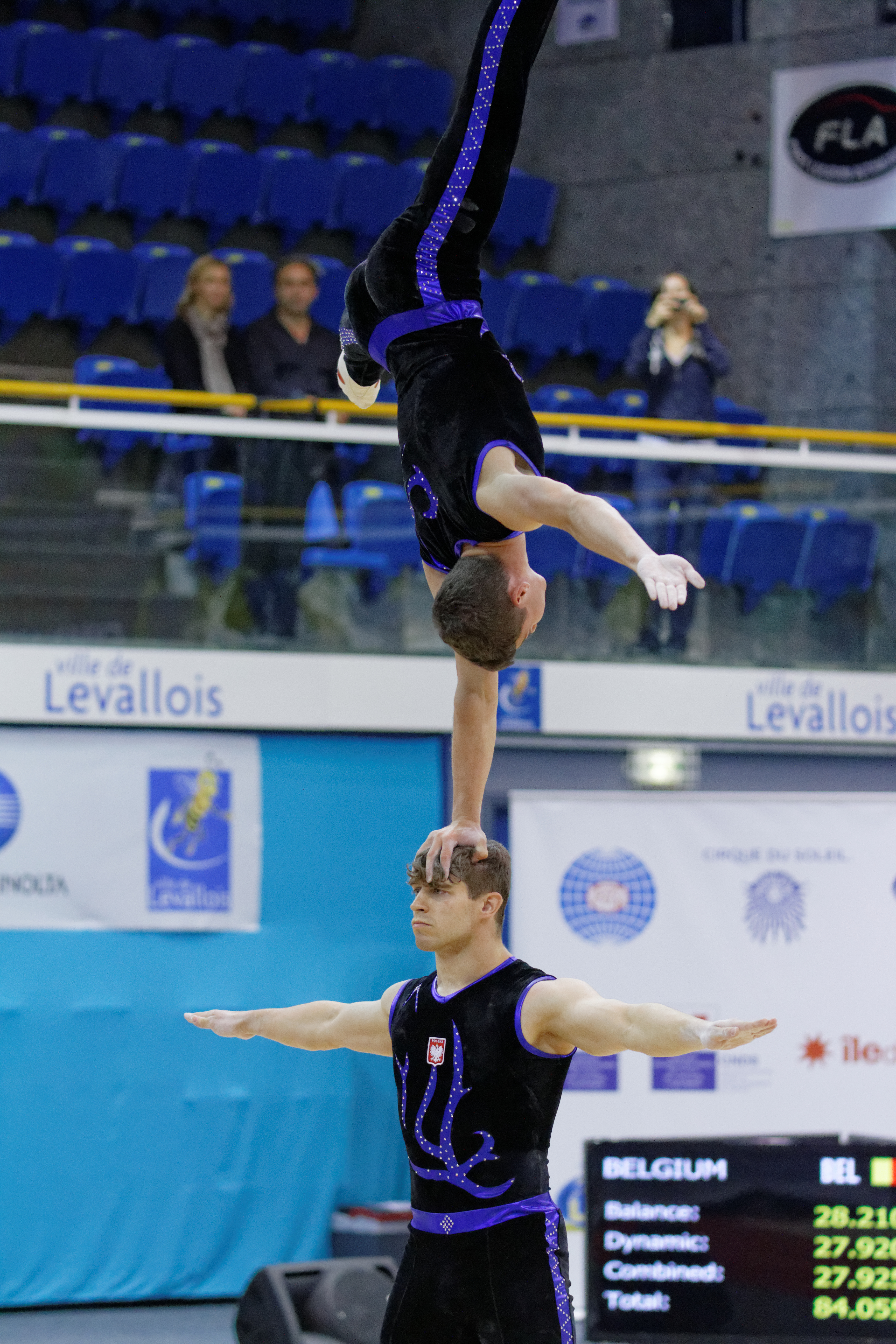 2014 Acrobatic Gymnastics World Championships, 10th-12 July, Levallois-Perret, France. Qualifications: men's pair. Poland.